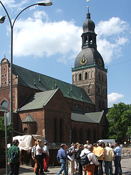 Cathedral in Riga